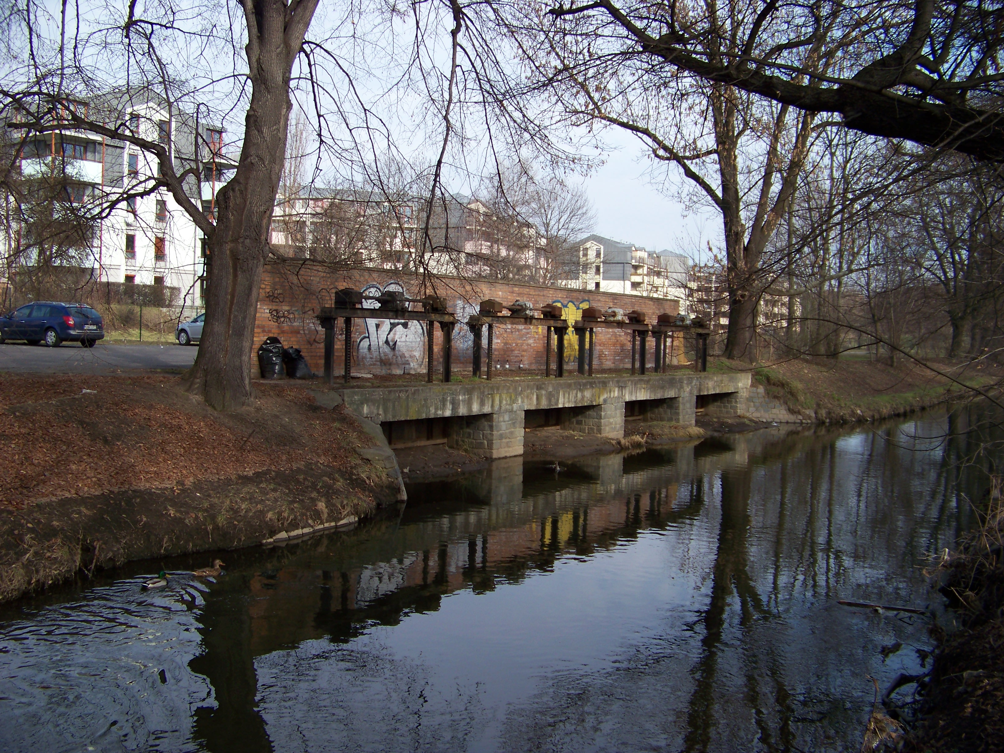 Prague-Libeň, the Czech Republic. Floodgates of the former millrace of Podvinný mlýn.